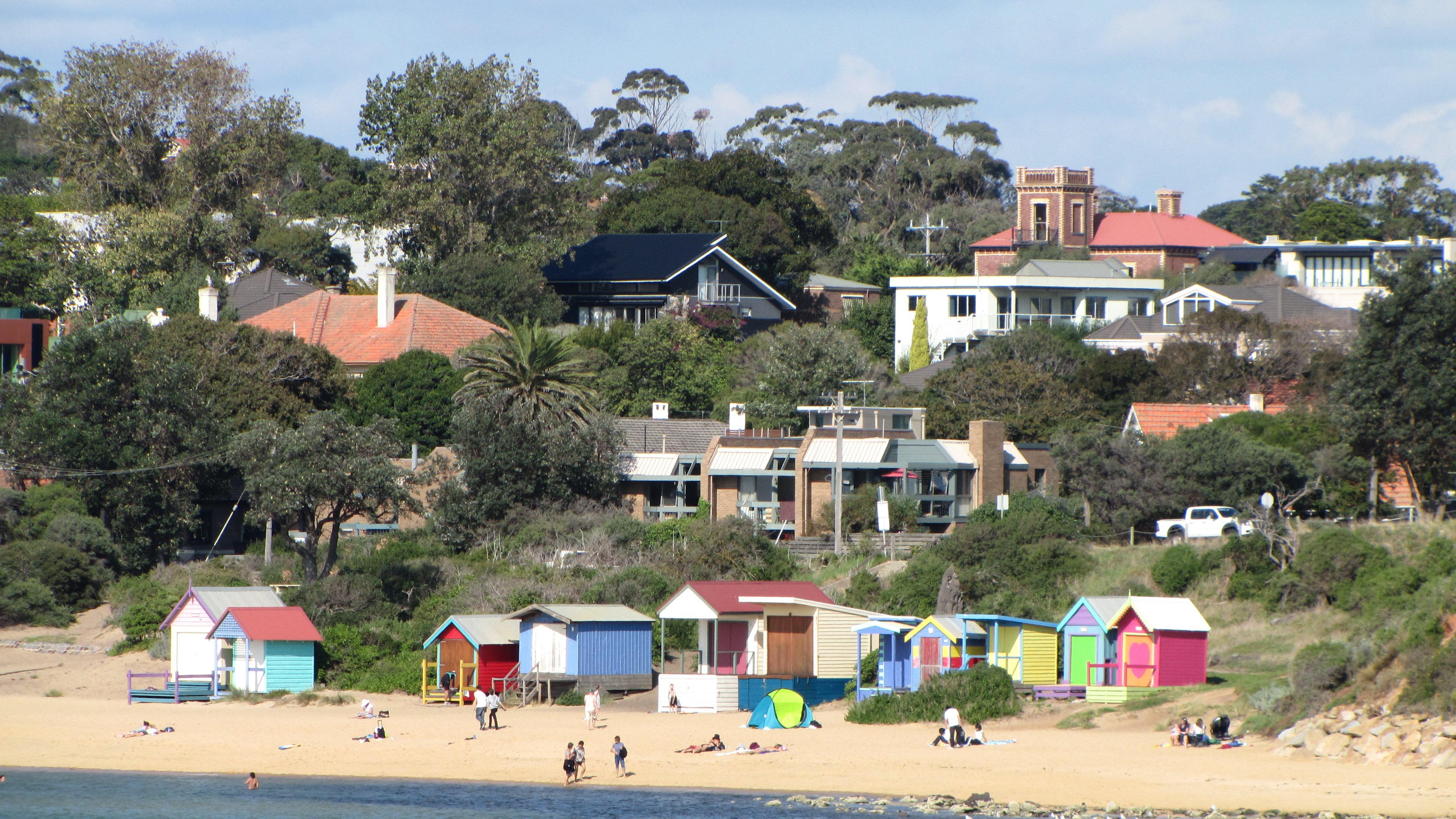 Mornington, Victoria Bathing boxes on the beach